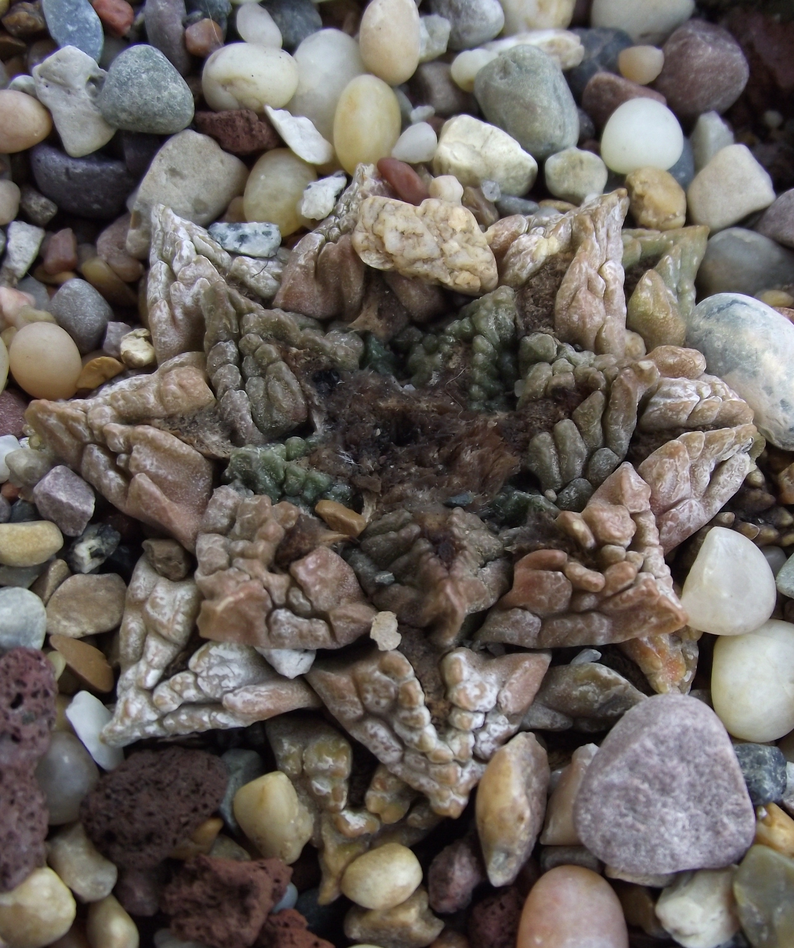 Ariocarpus fissuratus at the Volunteer Park Conservatory, Seattle, Washington, USA. Identified by sign.